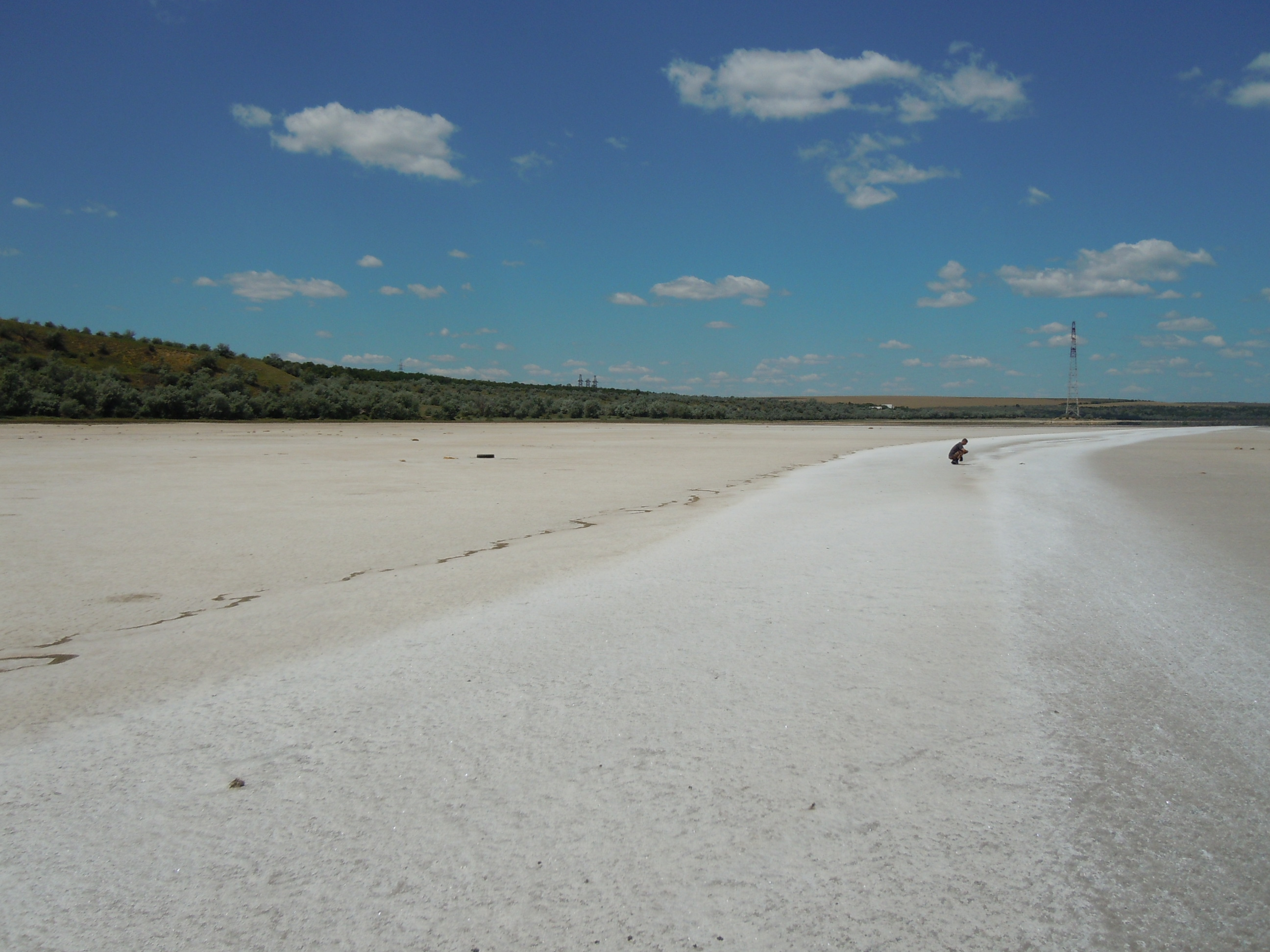 Dried up upper part of the Kuyalnik Estuary (SW Ukraine). Salt Desert